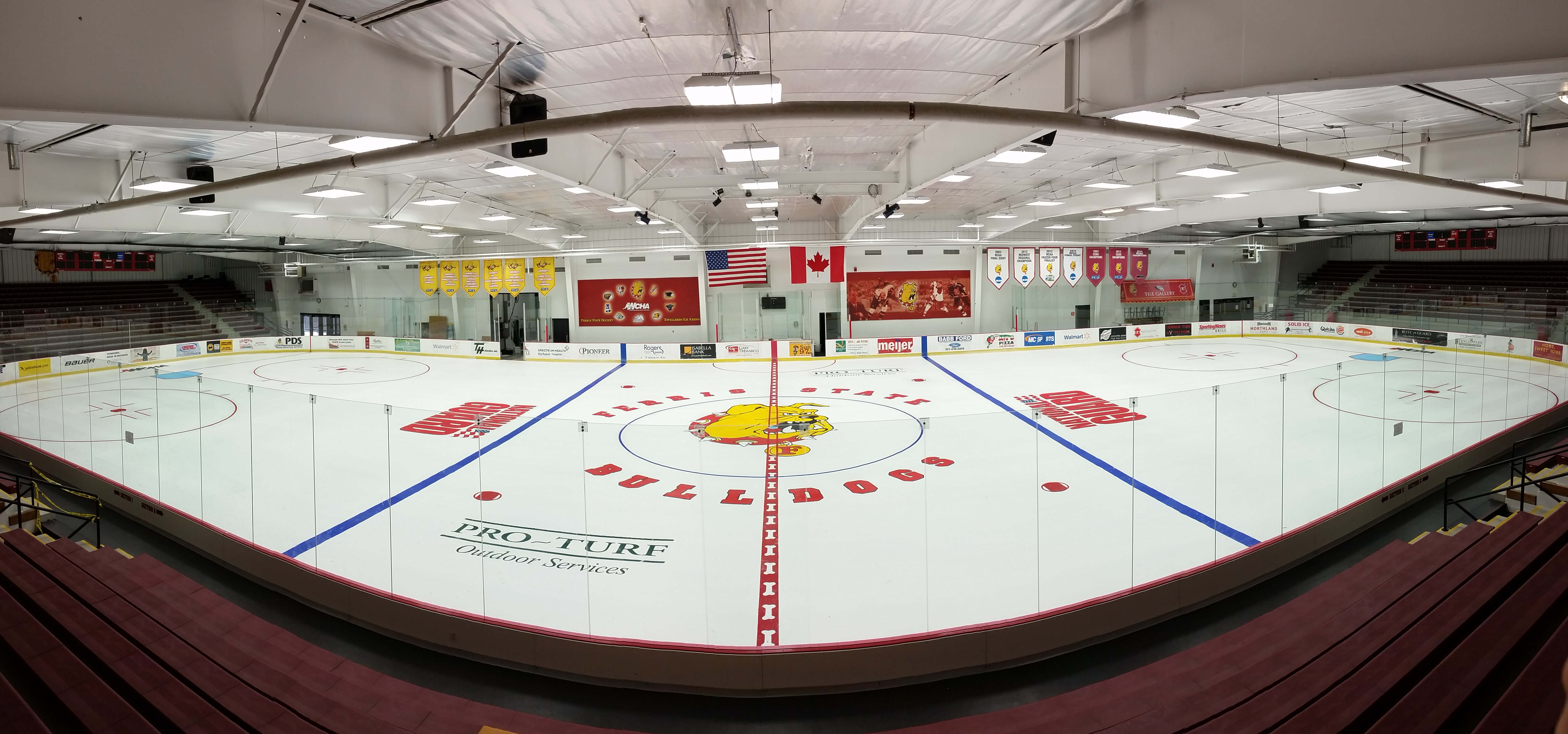 Ferris State University Ice Arena in June 2015